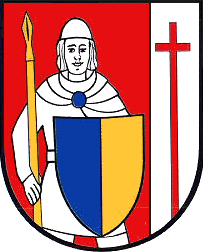 Coat of Arms of Gerbershausen